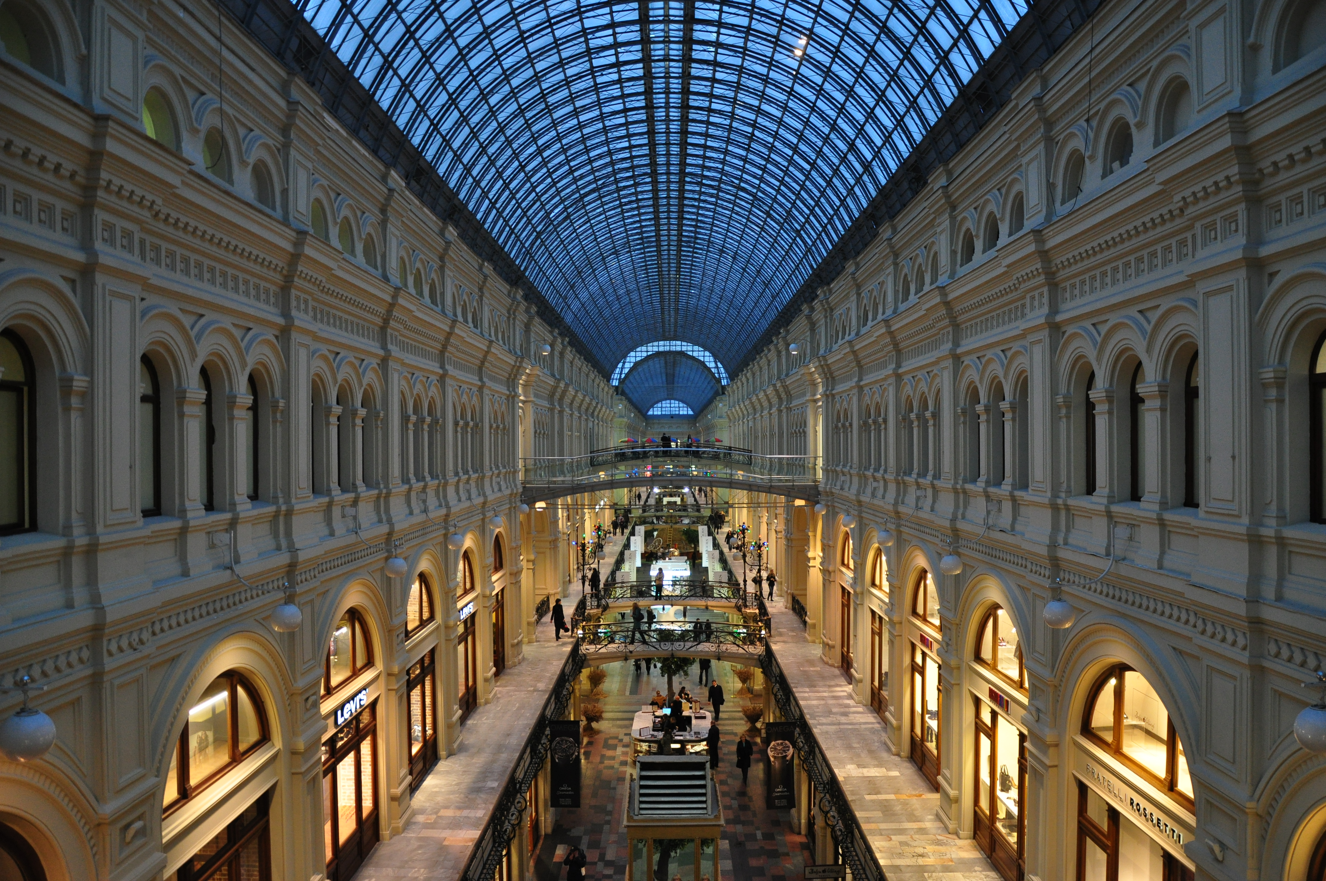 Moscow GUM Gallery